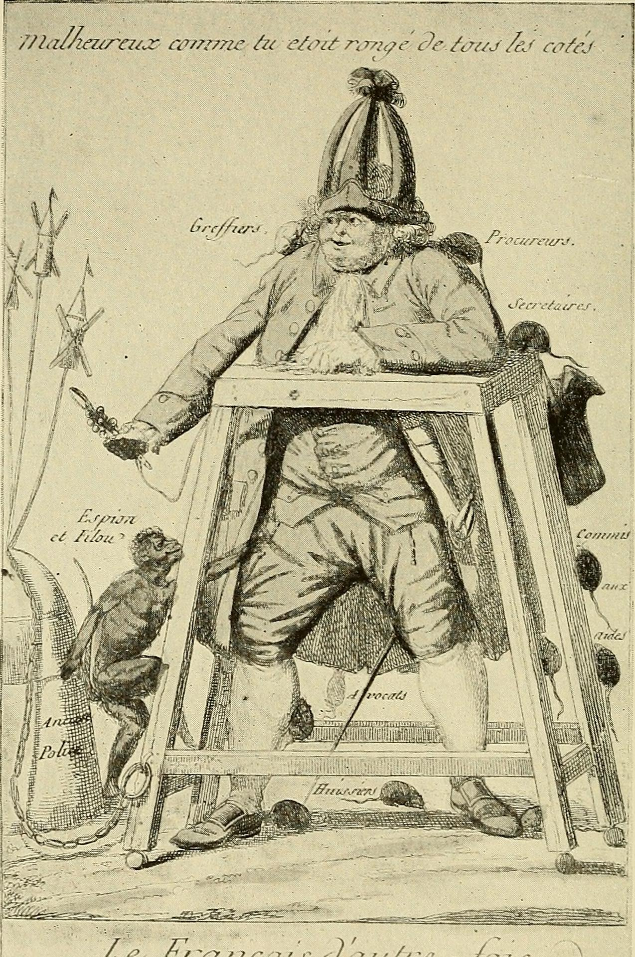 Title: Symbol and satire in the French Revolution Year: 1912 (1910s) Authors: Henderson, Ernest F. (Ernest Flagg), 1861-1928 Subjects: Caricatures and cartoons Publisher: New York, London, G.P. Putnam's Sons Text Appearing Before Image: Plate 38. A double cartoon representing the change wrought in the condition of the peasant by the renunciations of August 4th. After. 85 Text Appearing After Image: Lc f/Y2/U\7L\ J2^///\ -/Vc Plate 39. A double cartoon representing the Frenchman formerly and the Frenchman now. The Frenchman formerly. 86 La.^ /?Zo7^^ aiix-^ Ra/if.